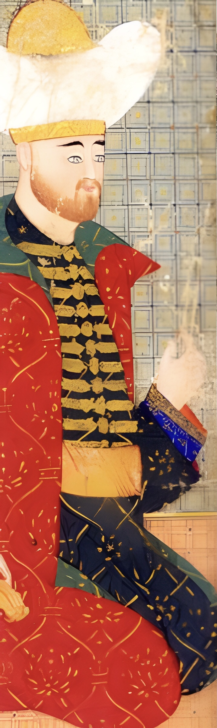 Sultan Bayezid I "the Thunderbolt". Ottoman miniature painting, detail from a family-tree: The Sultan's portrait. [exhibition held at the Topkapı Palace Museum in Istanbul, 6.6.-6.9. 2000]. Topkapı Sarayı Müzesi, Istanbul